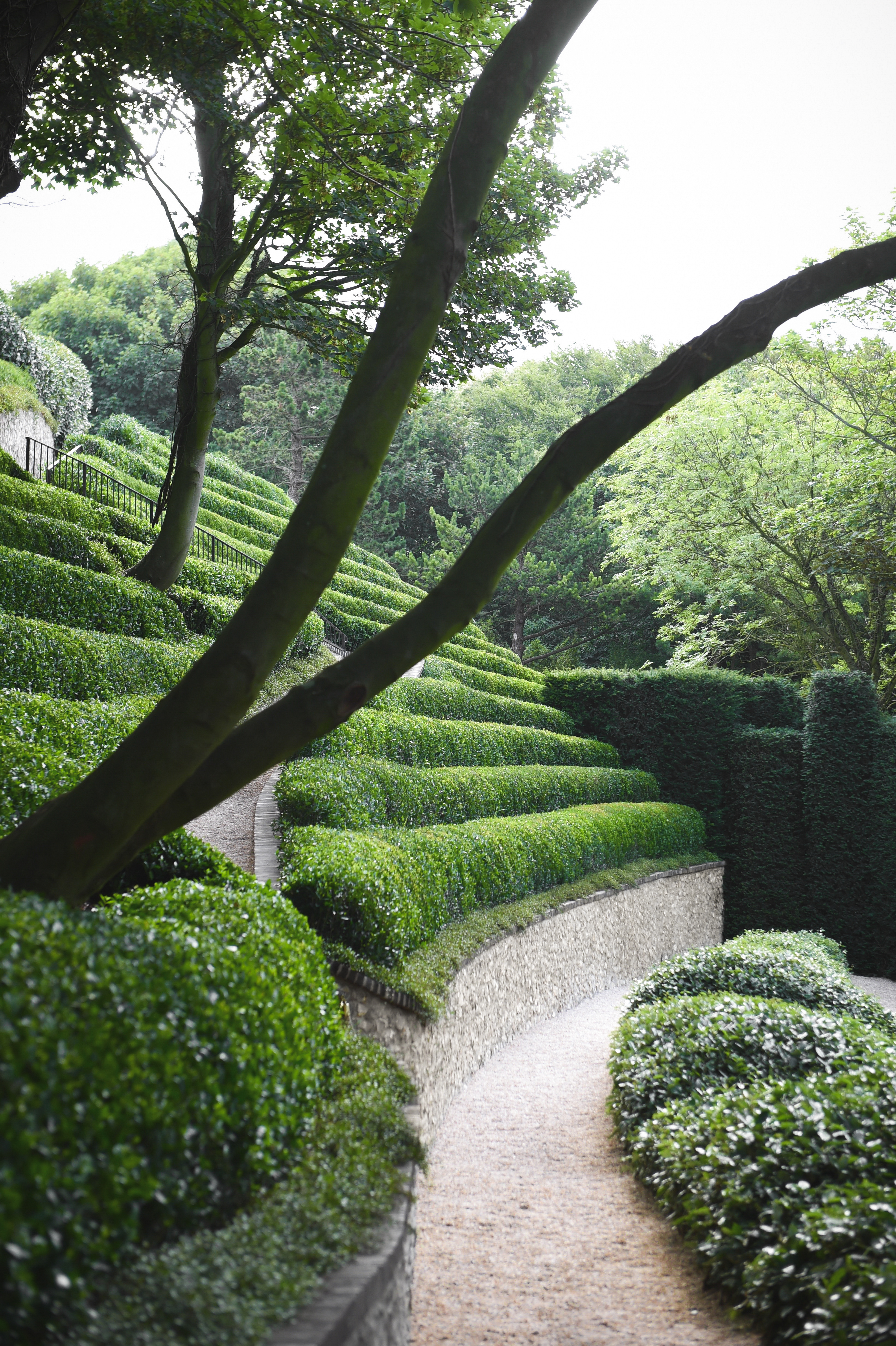 France, Etretat, Etretat Gardens, Le Jardin d'Amont